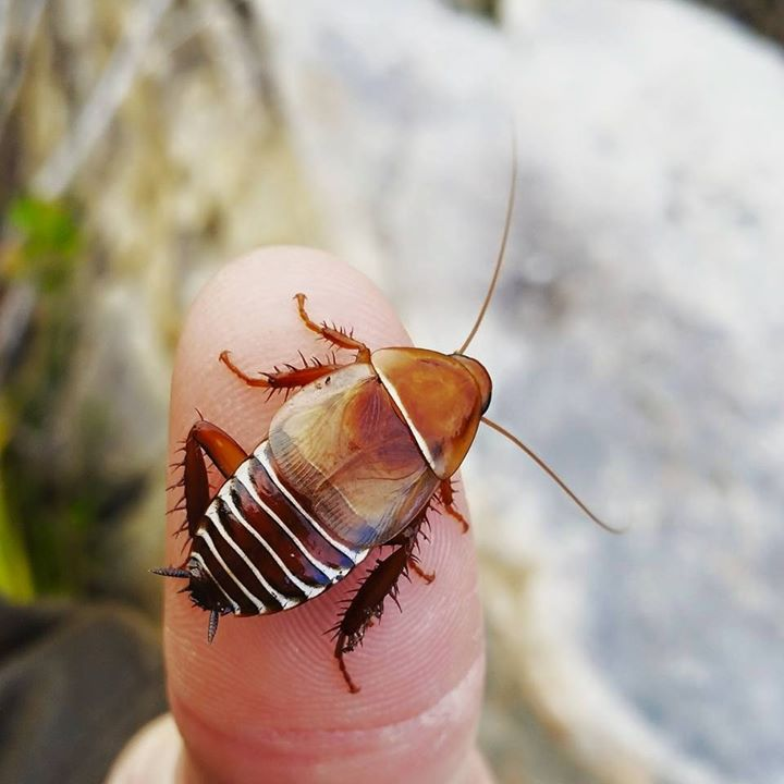 Temnopteryx phalerata - Kogelberg Nature Reserve, South Africa